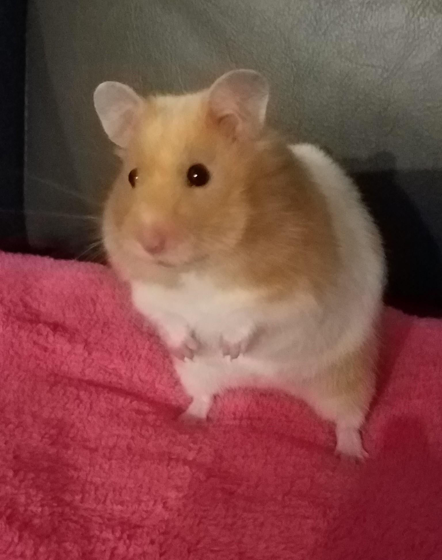 Coco, a Syrian Hamster